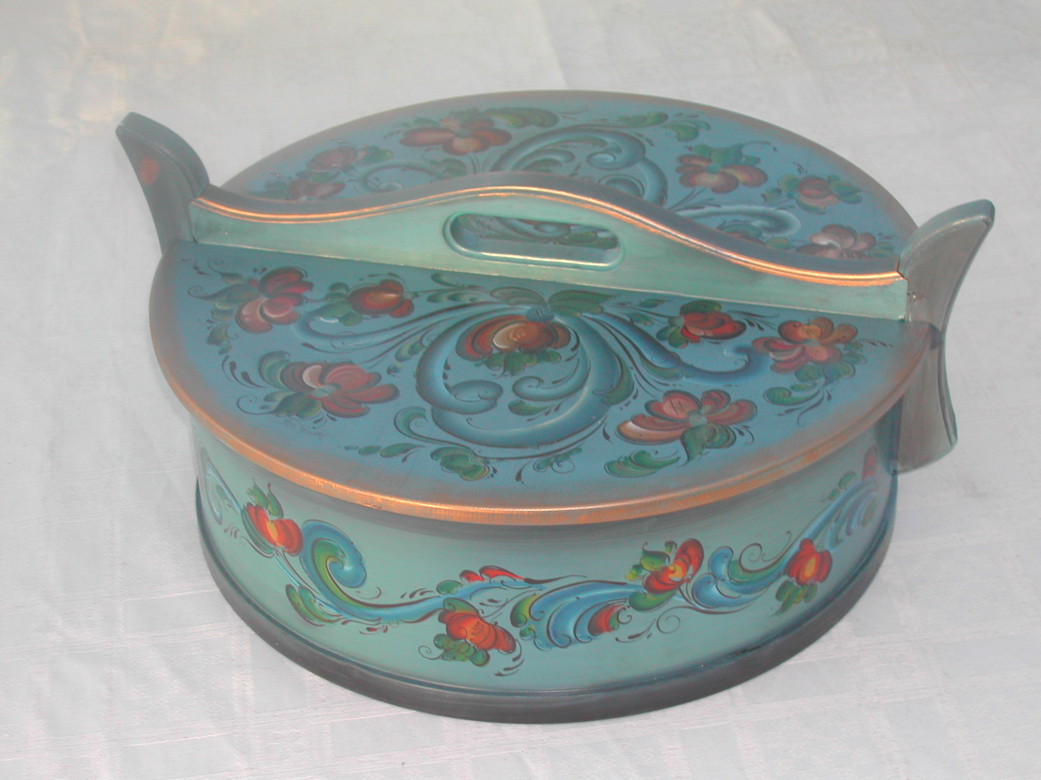 Kaketine (box for a cake), rose painted